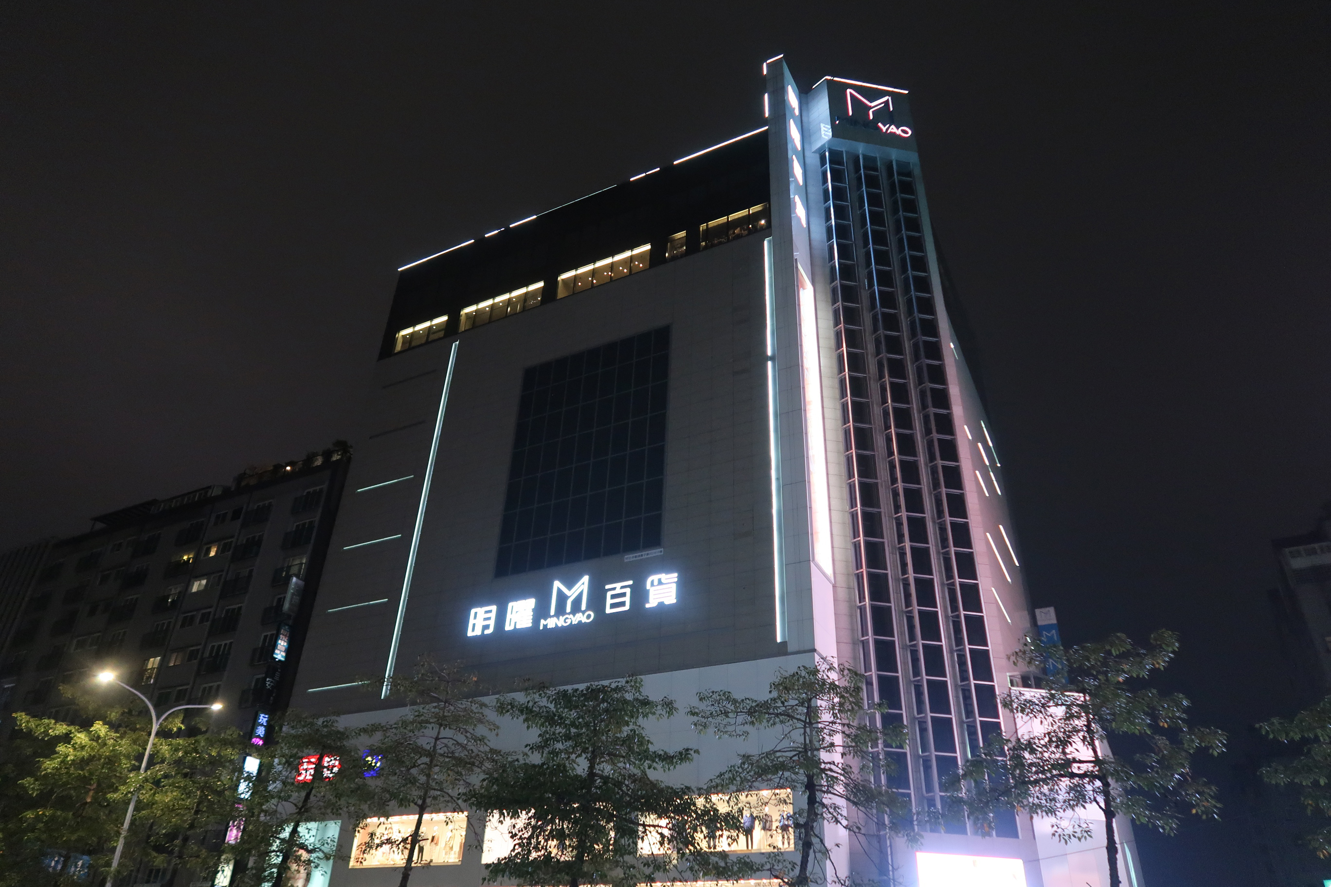 Ming Yao Department Store